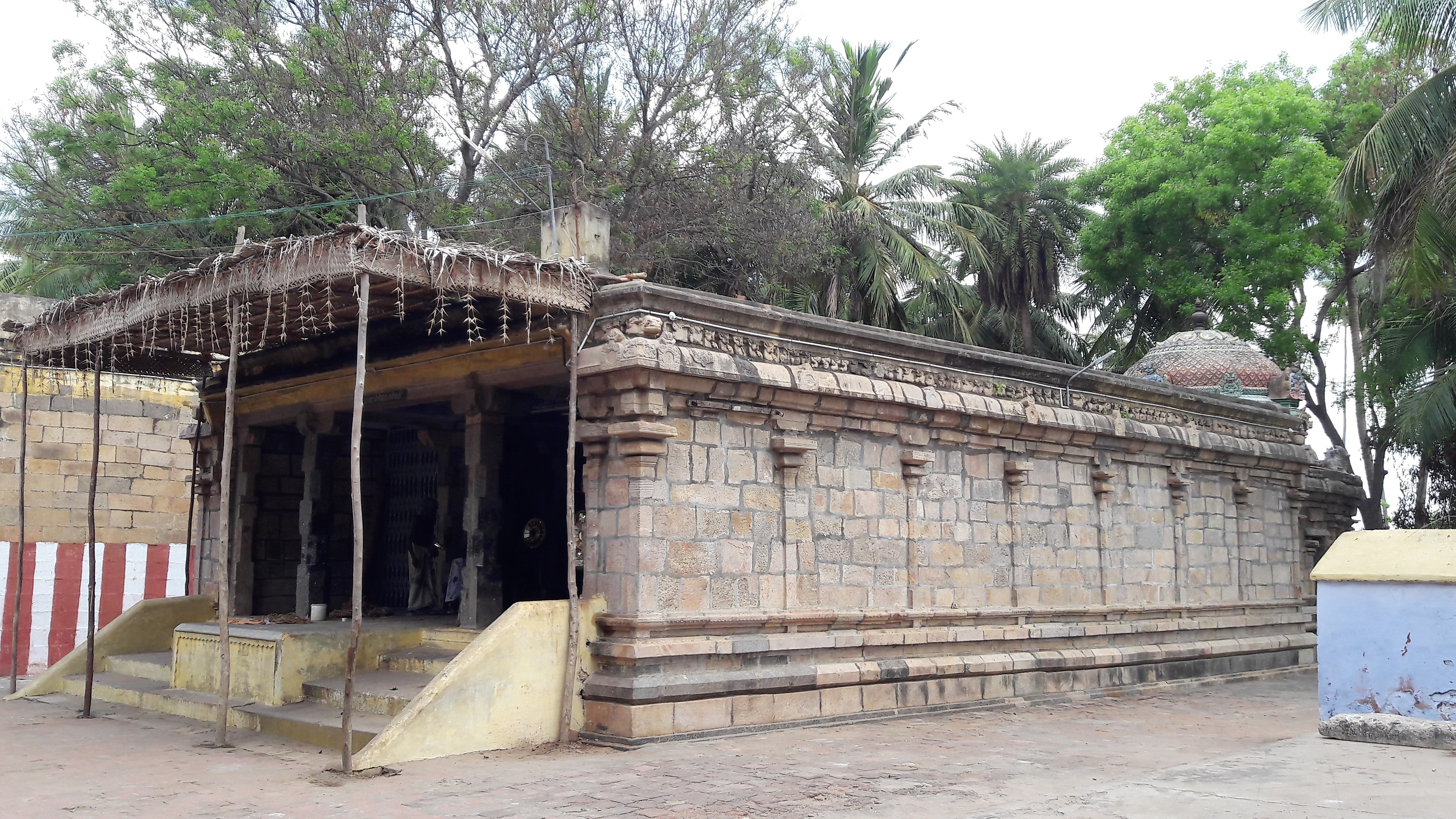 Neyyadiyappar temple Thillaistanam